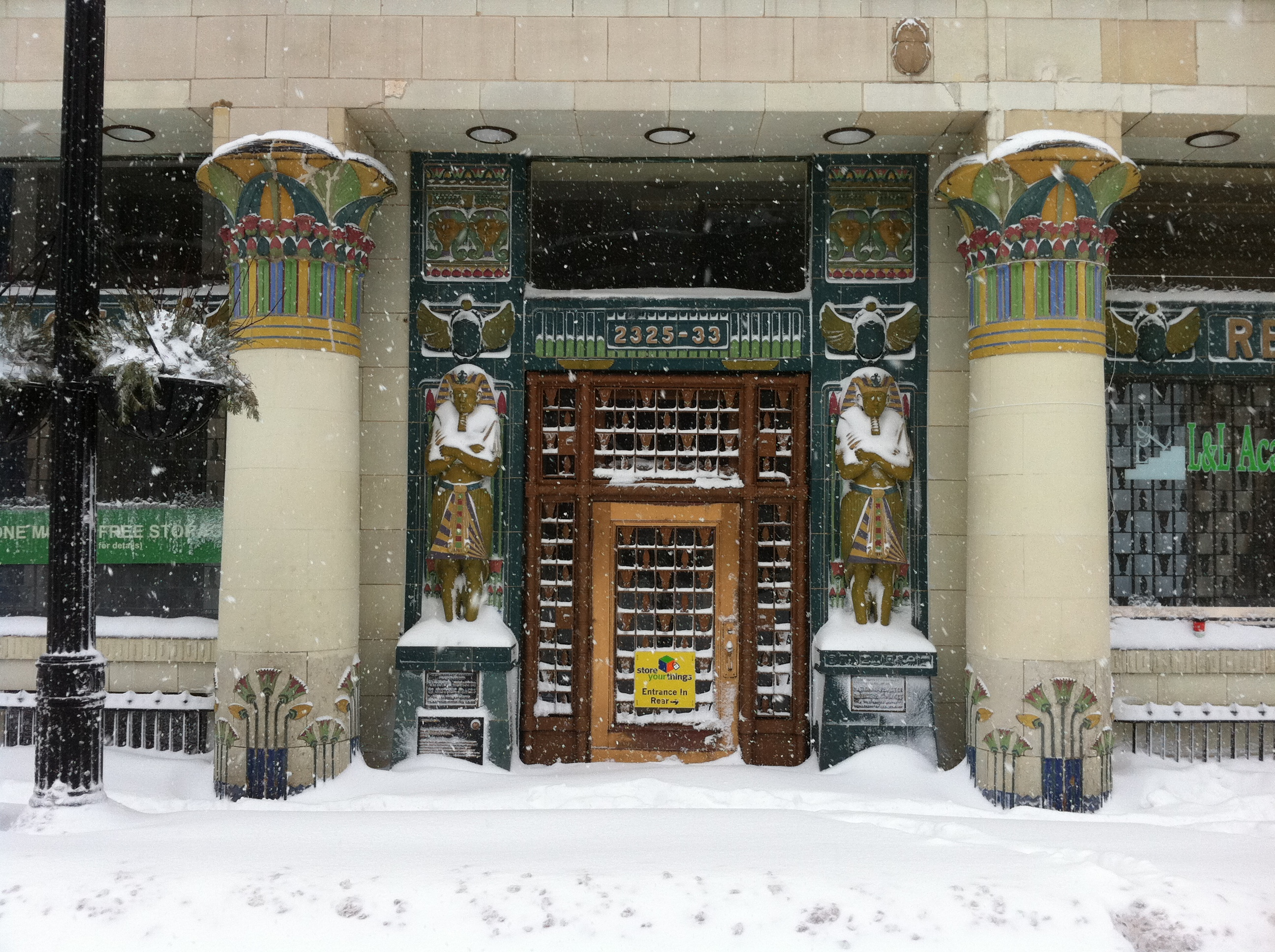 Reebie Storage building (2325-33 N. Clark St.) during feb 2 2011 storm